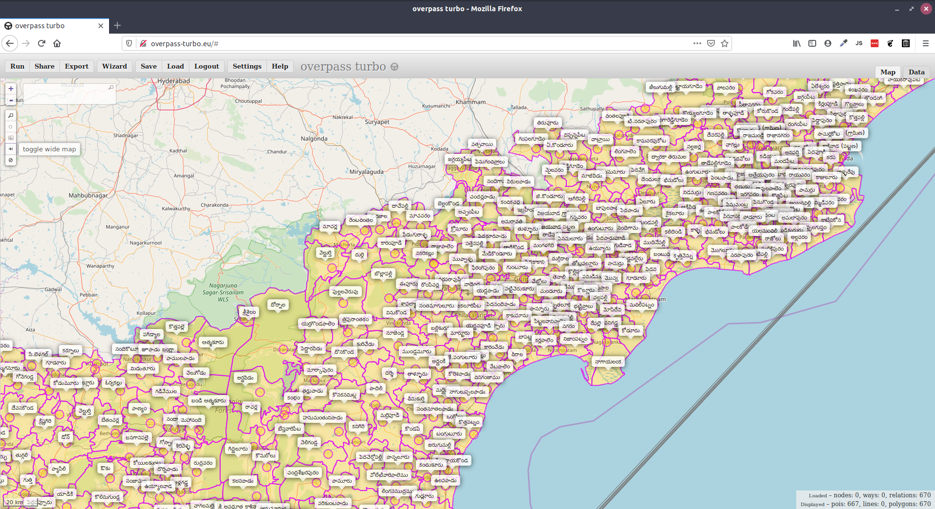 Screenshot of the Query for a selected area (Query link